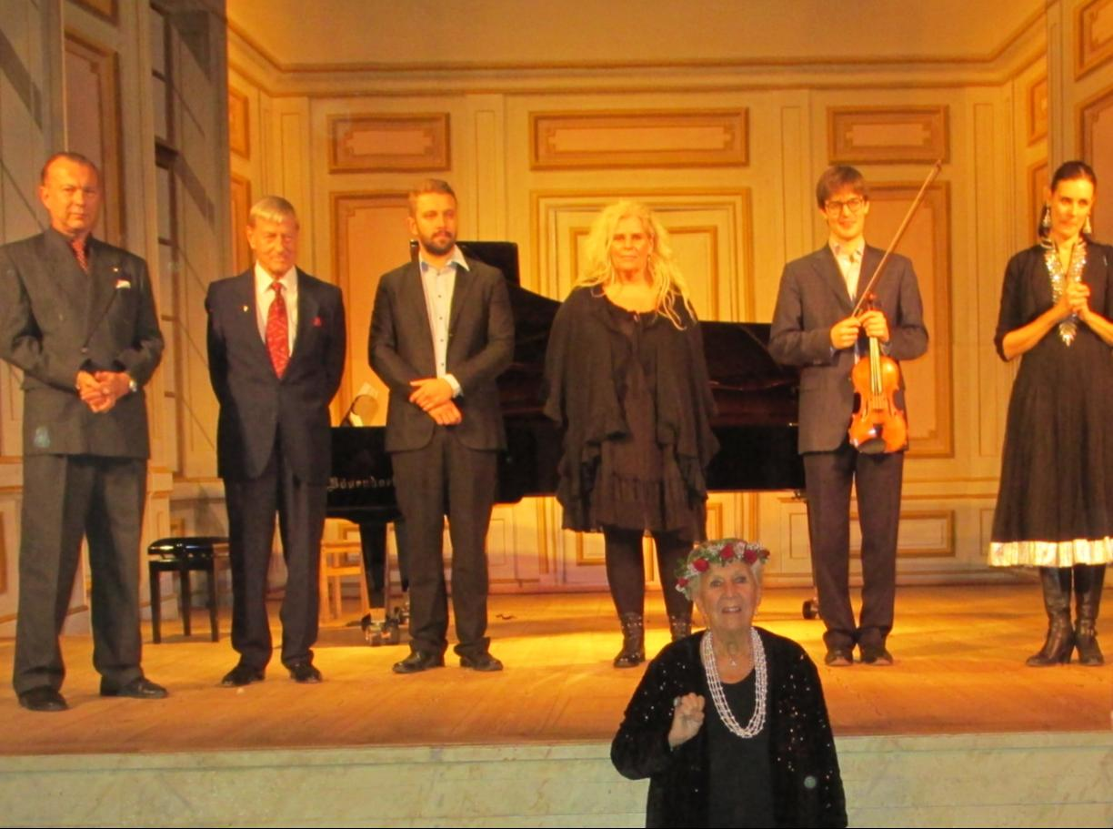 Thomas Dellert, pianist Ivan Renliden, accordionist Daniel Andersson, pianist Majsan Dahling, Kjerstin Dellert, Hugo Ticciati & singer Caroline GentelePlace: Confidencen, Ulriksdal, Solna, Sweden